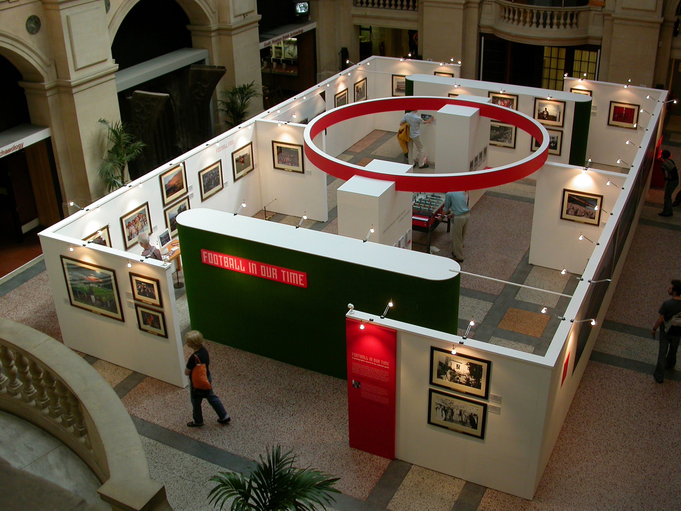 The Homes Of Football Exhibition in Bristol 2004